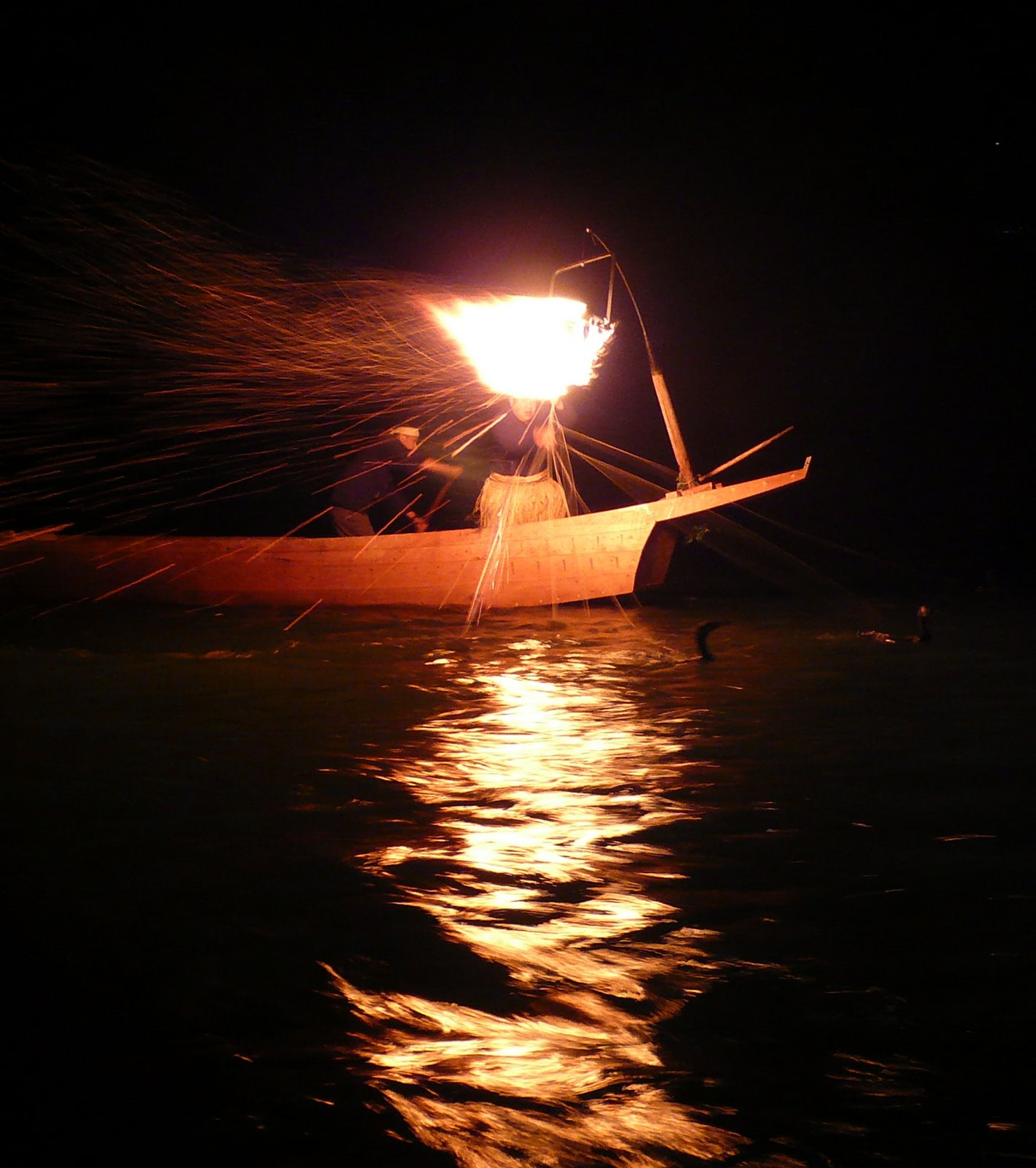 I took this picture on June 16, 2007, while watching Cormorant Fishing on the Nagara River in Gifu City, Japan.